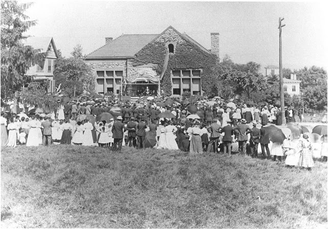 The dedication of the Lincoln Memorial Boulder was one of the great events in the history of The Nyack Library. The children of Nyack raised money for the boulder to be moved up from the Hudson River and the plaque to be inscribed with Lincoln’s Gettysburg Address. The keynote address at the dedication was given by Judge Arthur S. Tompkins.